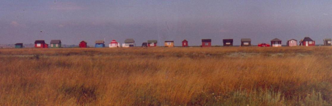 Langeland, Denmark